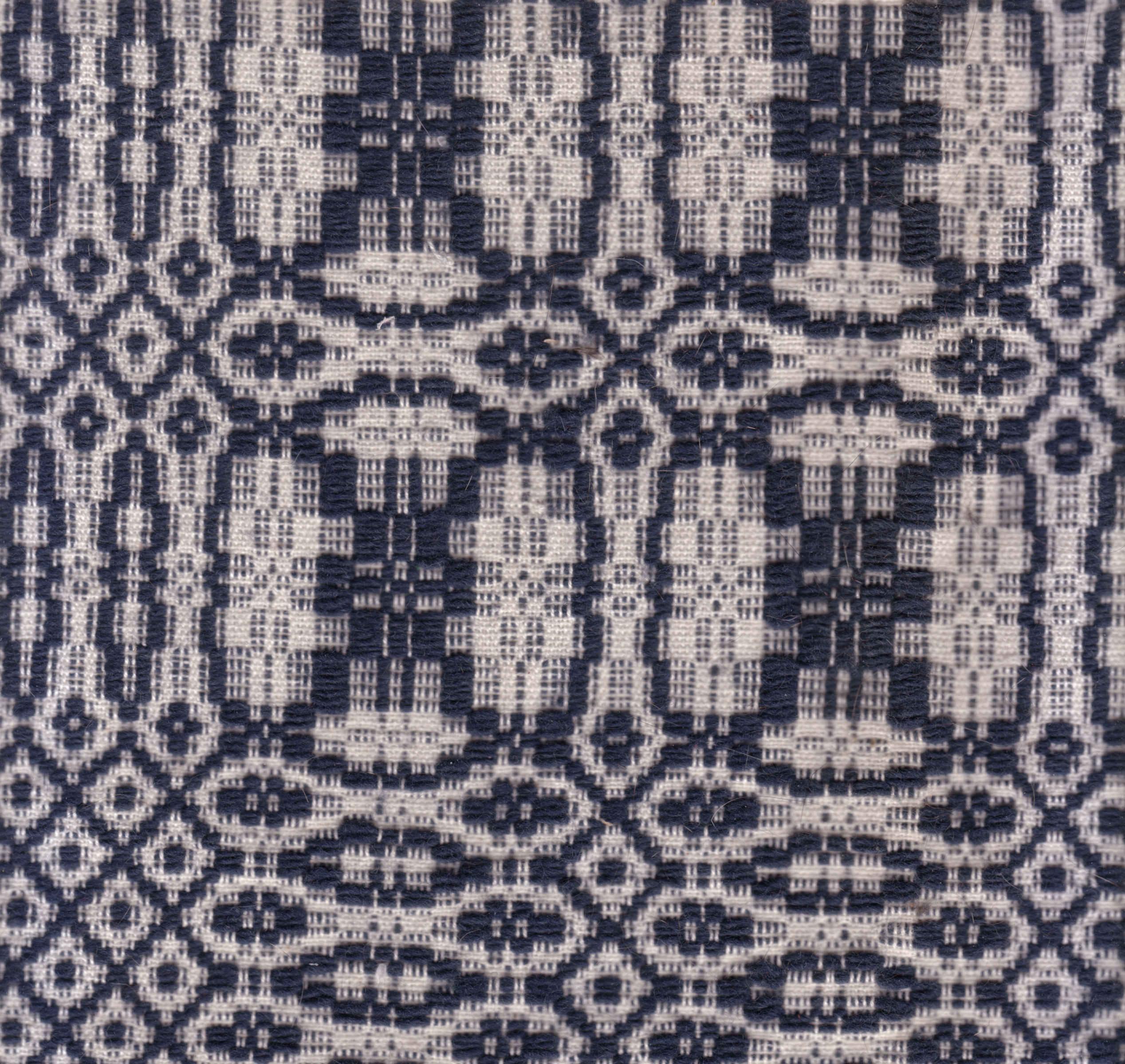 Detail of reproduction Colonial American-style linsey-woolsey woven coverlet in dark blue wool and natural cotton